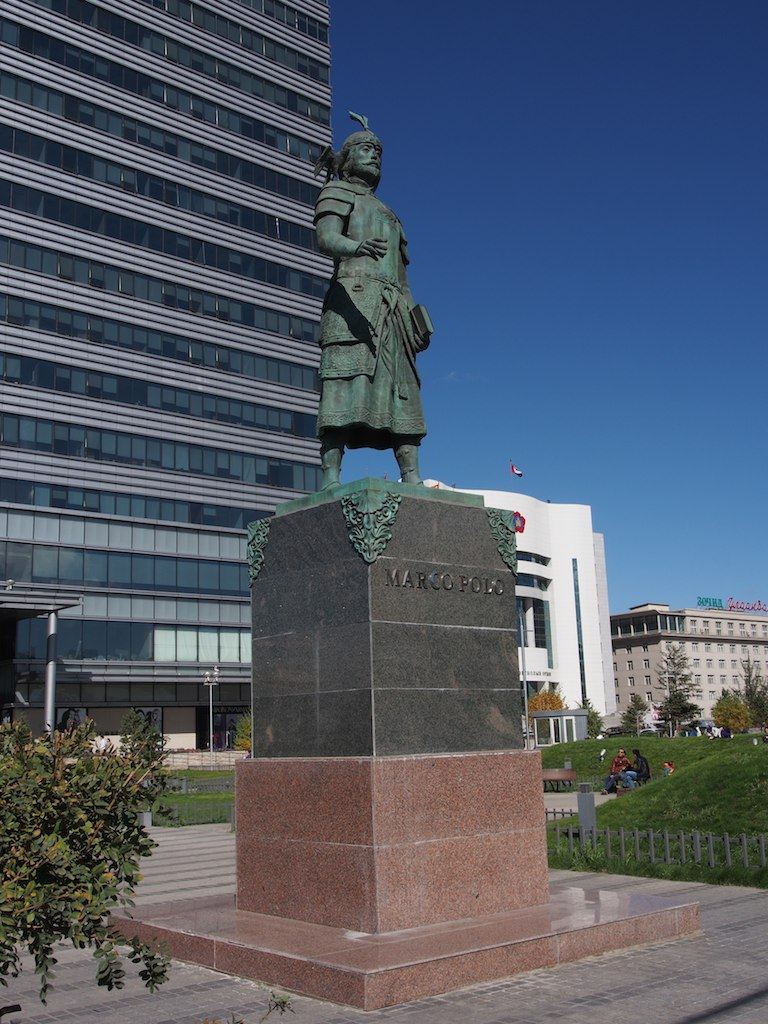 Statue of Marco Polo